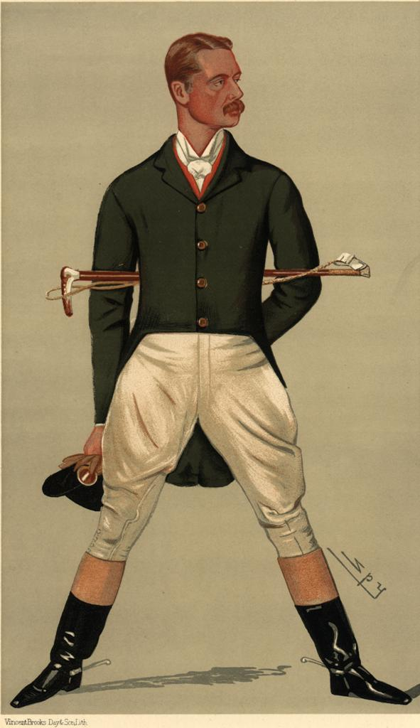 Caricature of William Henry Grenfell (later Lord Desborough) . Caption read “Taplow Court”.